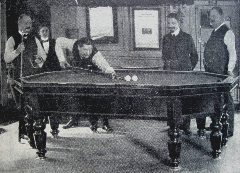 German player Paul Kerkau, shooting on a rare carom billiards table in the shape of an elongated octagon (ca. 1920, Germany).